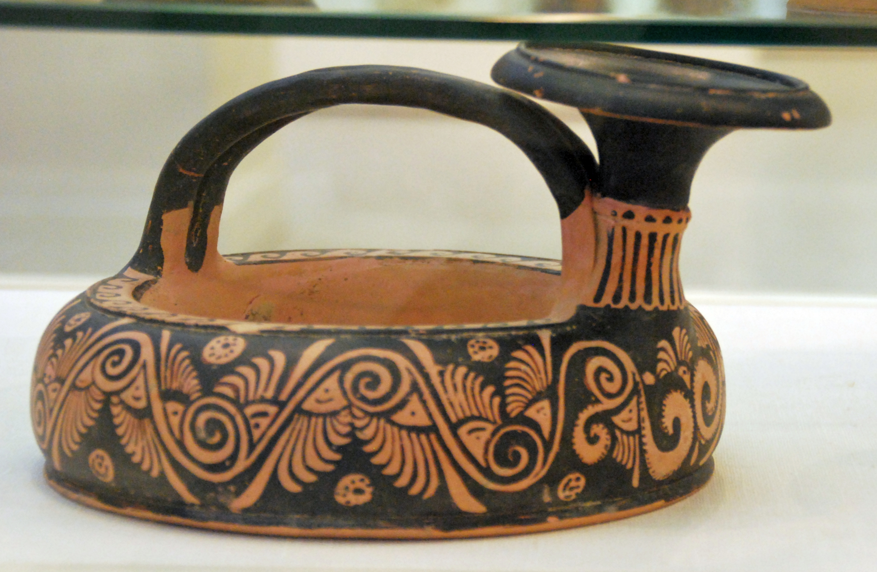 Campanian Ring askos; Antikensammlung Kiel, inventory number B 535.